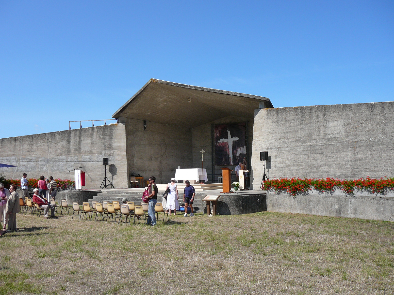 Catholic outside altar in Port-des-Barques, Charente-Maritime (17), Poitou-Charentes, France, Europe.